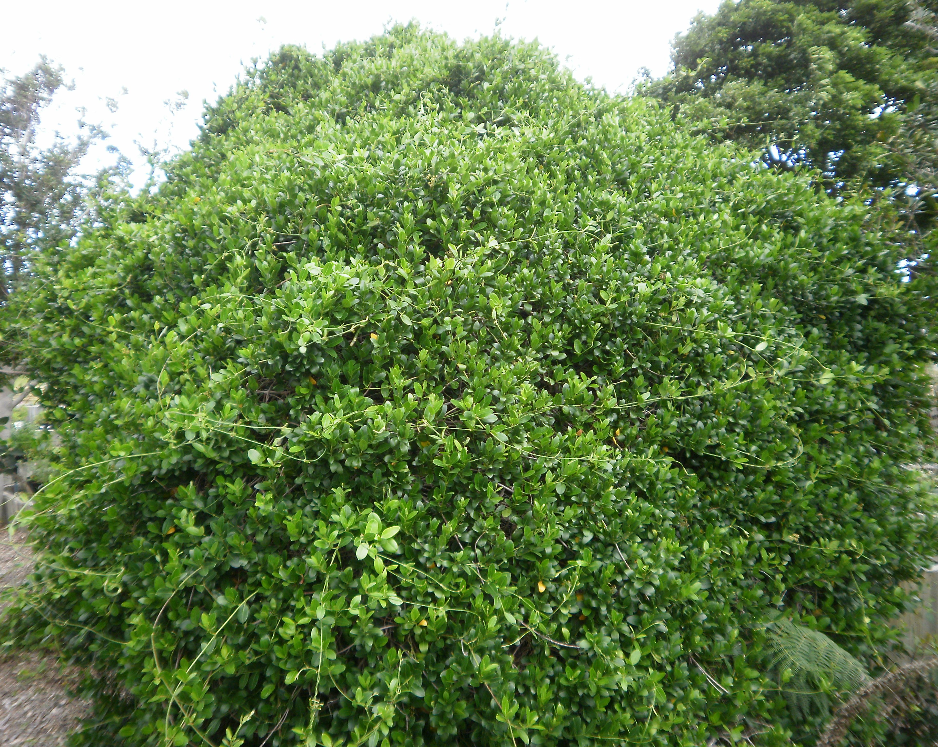 Monkeyrope creeper covering a wire structure. South Africa.